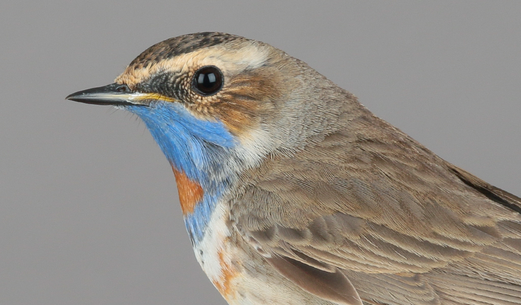 Bluethroat (Luscinia svecia) adult male in spring, photographed at Ottenby Bird Observatory, Sweden